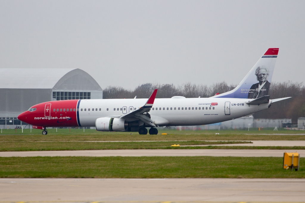 Manchester 12/3/12, taken on its first visit to Manchester.